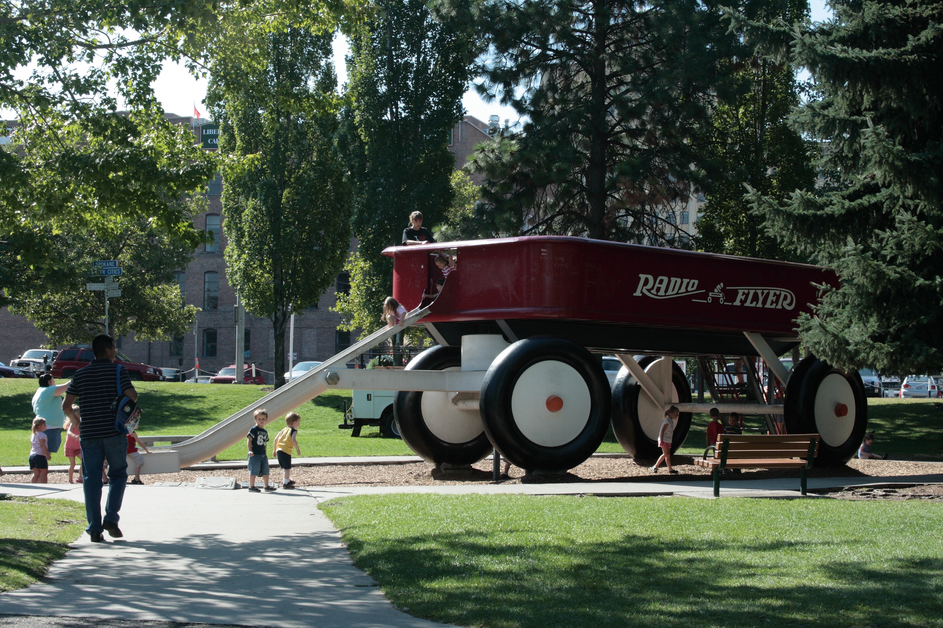 August 2009 image, looking south, of "The Childhood Express", also referred to as the Red Wagon, play sculpture located in Riverfront Park in Spokane, Washington.